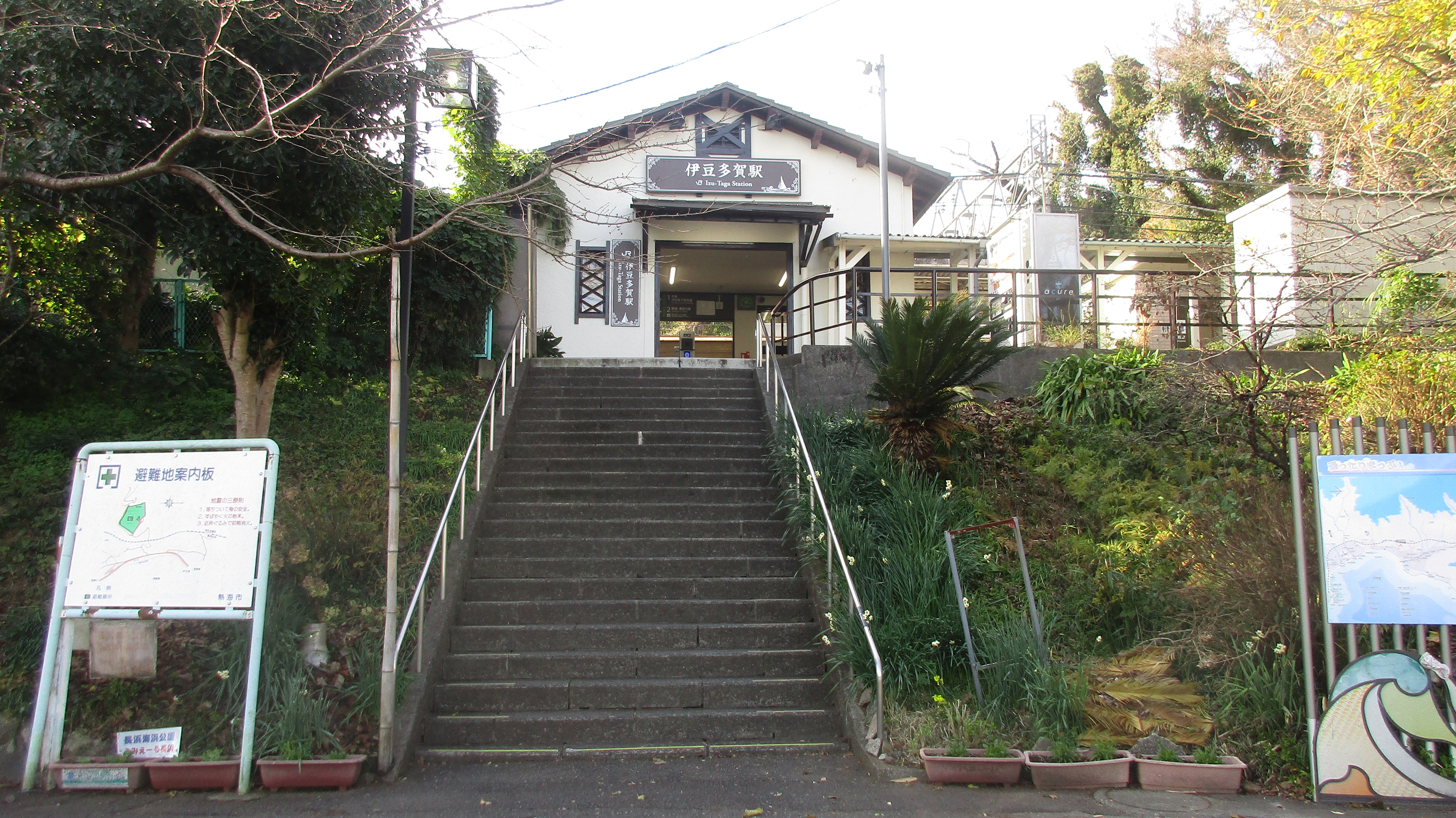 JR伊東線 伊豆多賀駅舎